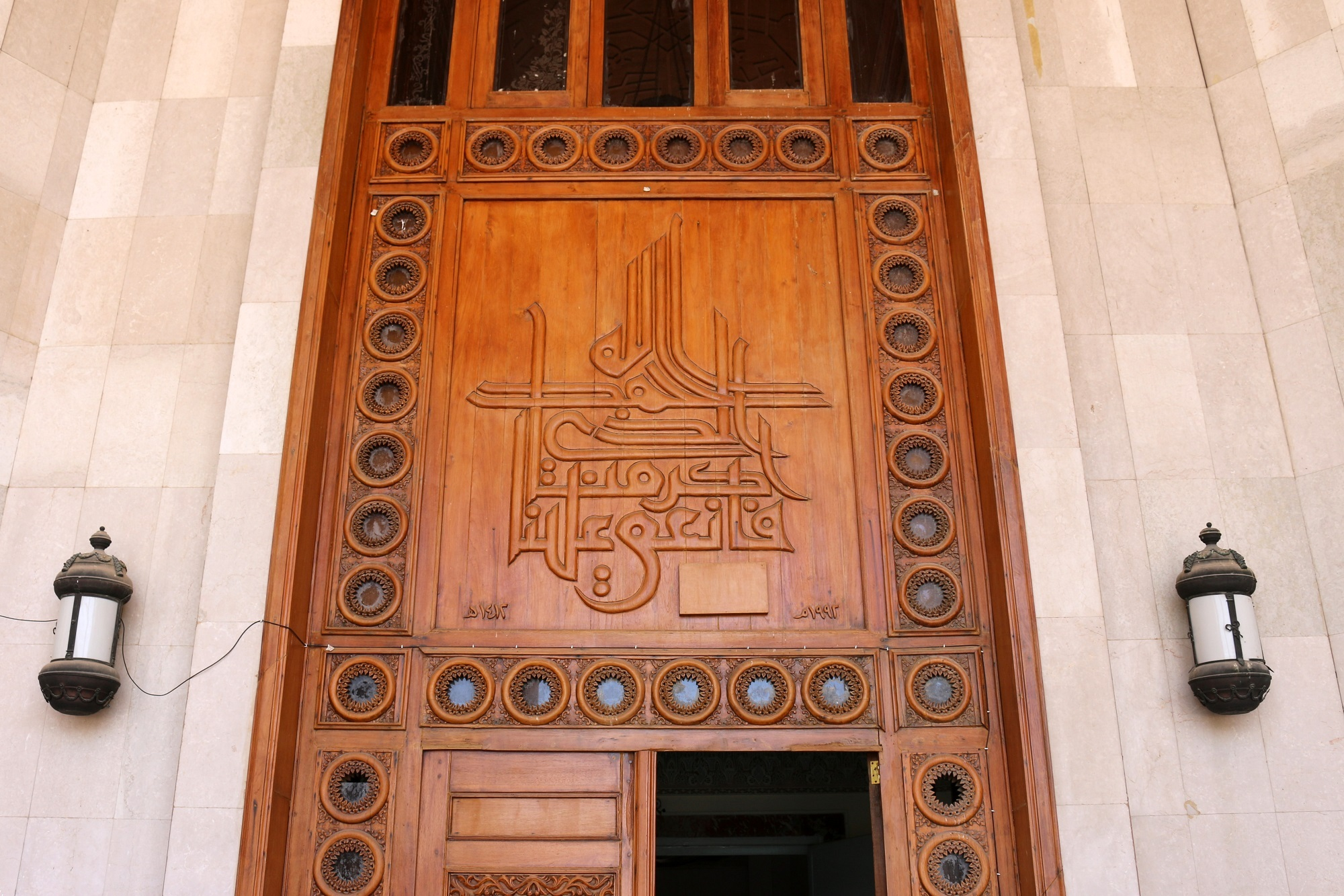 Basra Museum in Iraq -- Photo by Persian Dutch Network